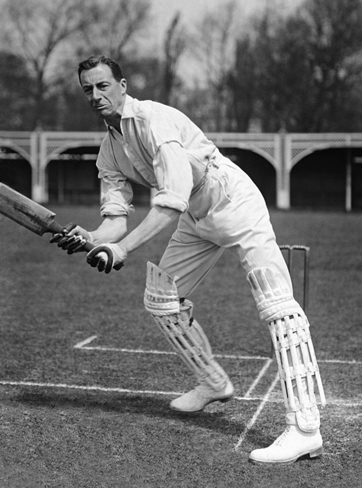 John Richard Mason, cricketer